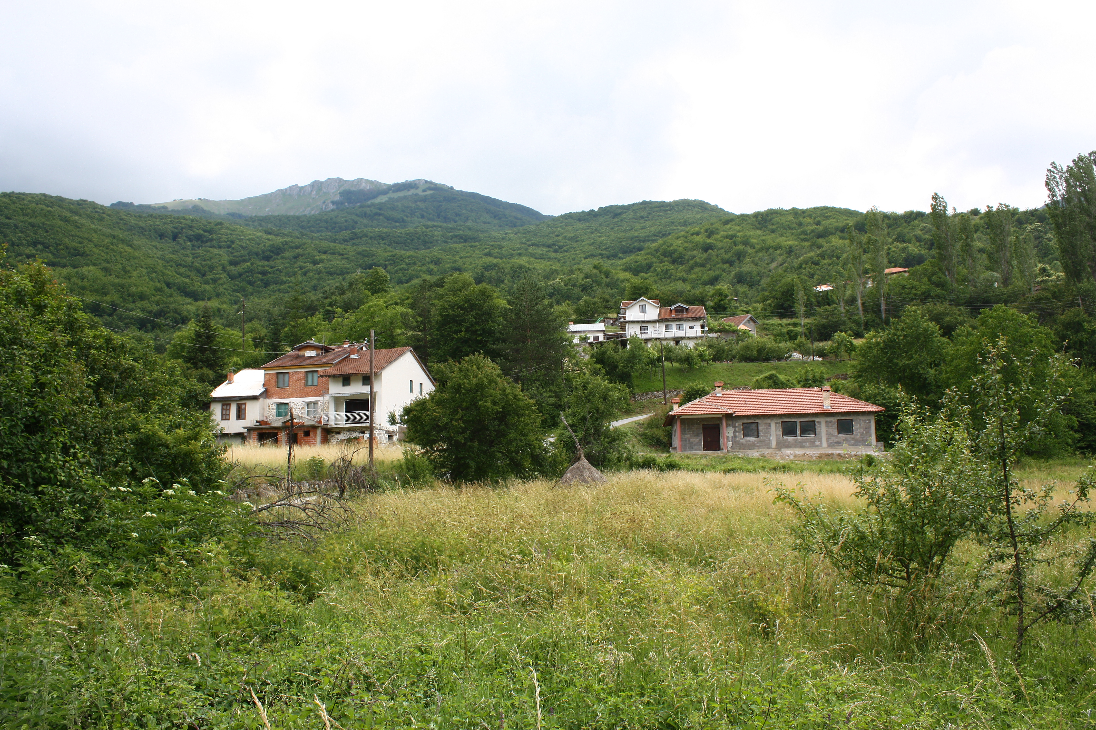 Modrič, Macedonia